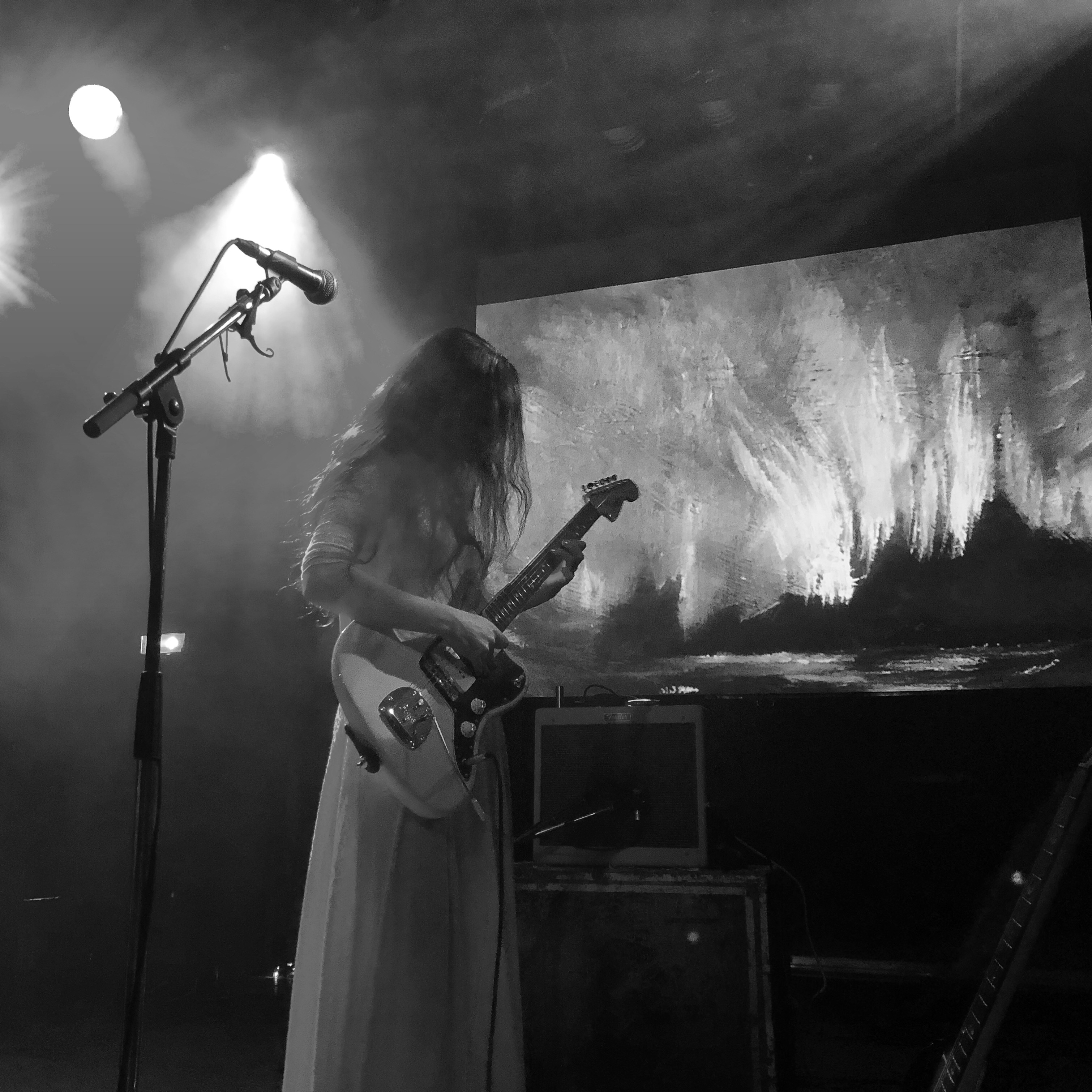 Marissa Nadler performing before an image of her oil painting "For my Crimes" in Groningen at the VERA club.